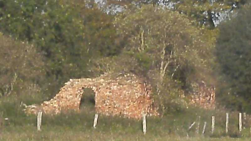 Ruin of Clörath Castle, Clörath, Viersen, Germany